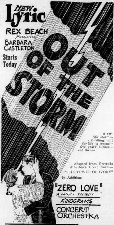 Newspaper advertisement for the American film Out of the Storm (1920) with John Bowers and Barbara Castleton, on page 9 of the April 30, 1921 Duluth Herald.